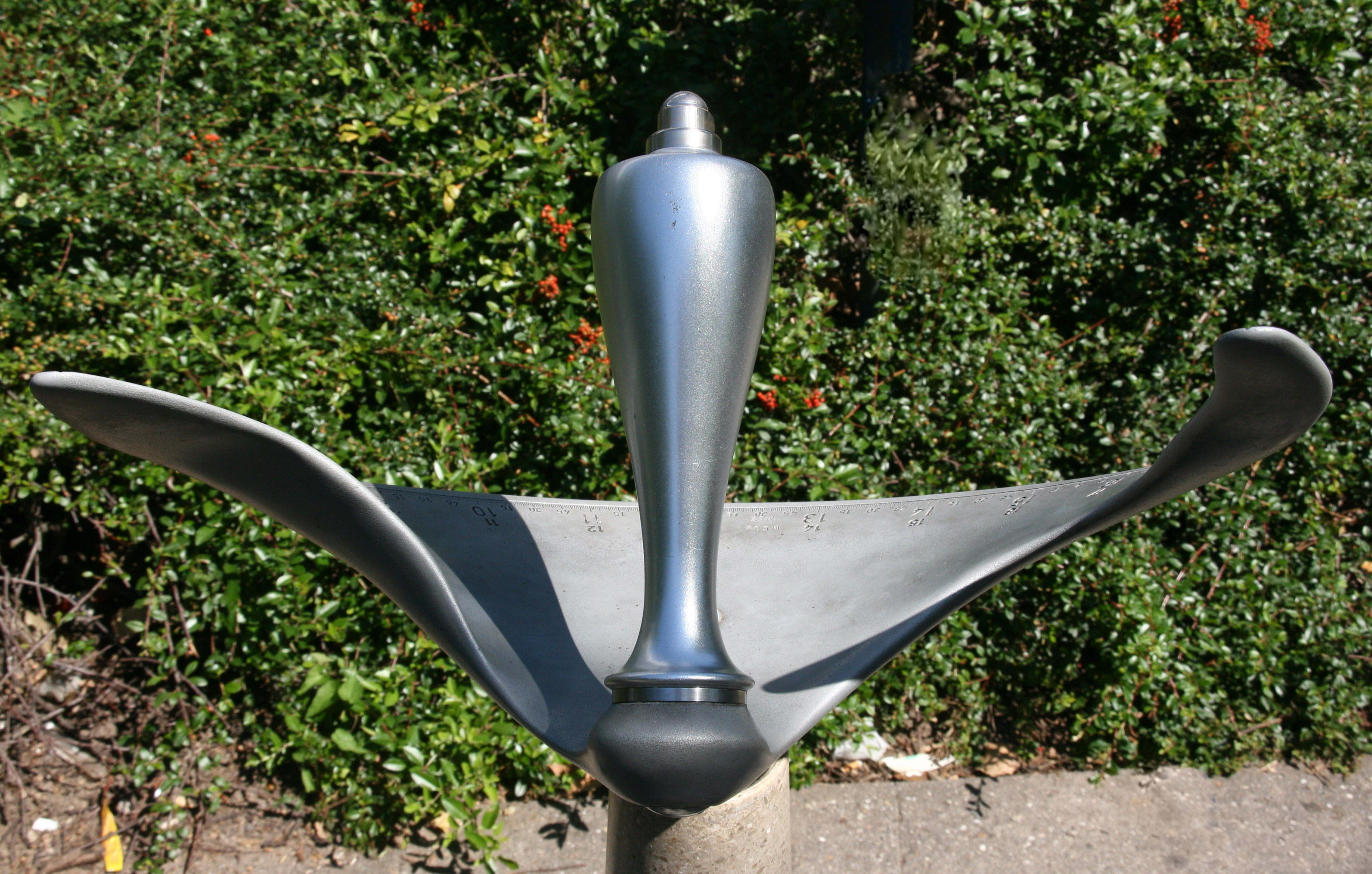 Precision Sundial at the Carl Zeiss Planetarium in Stuttgart